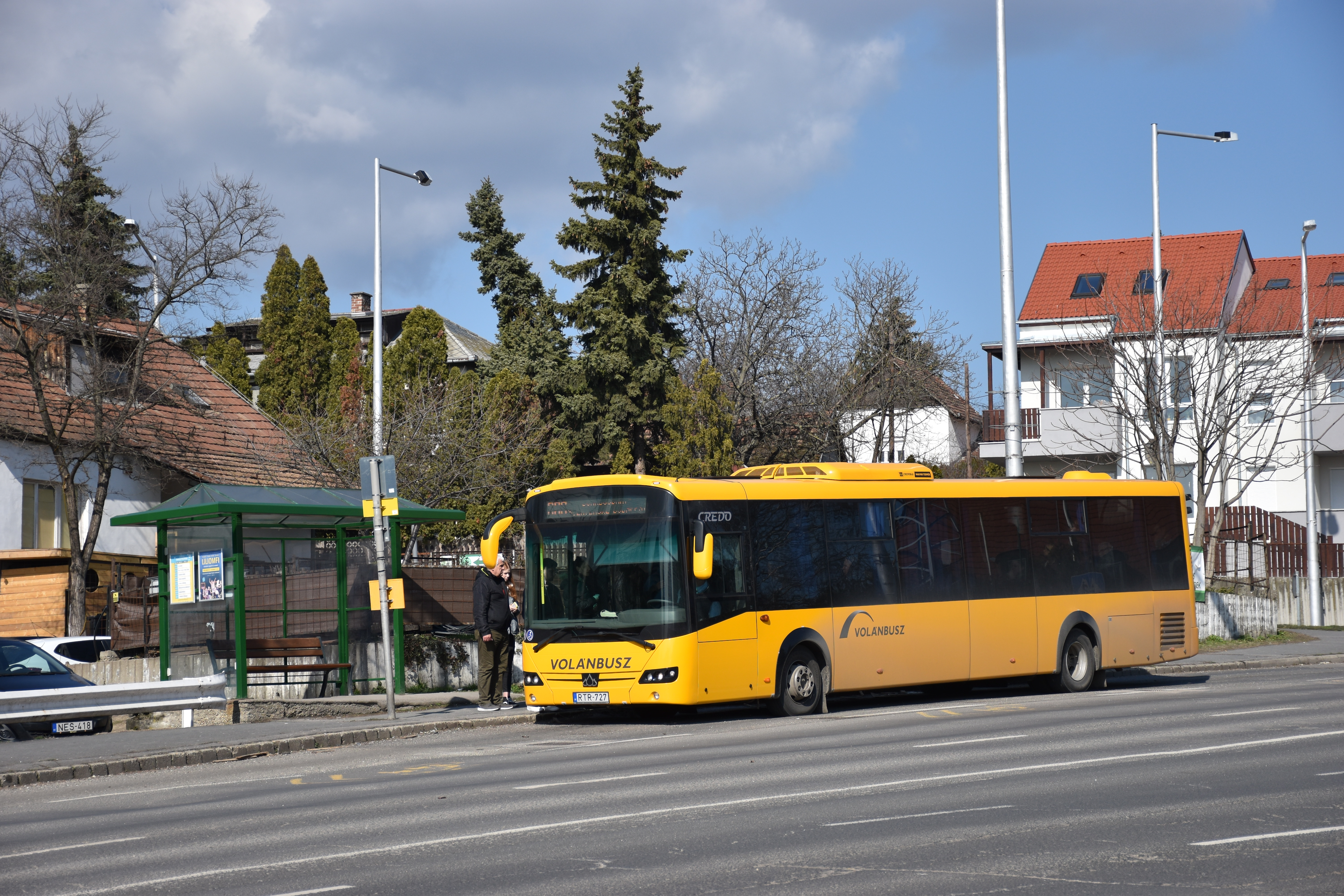 Volánbusz's Kravtex Credo Econell 12 bus at Szentendre, Izbégi elágazás bus stop